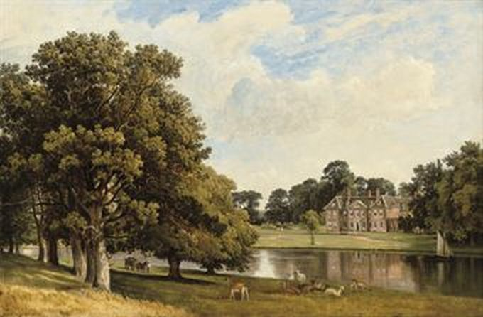 Grazing Deer before Chilston Park, Kent. Oil on board, 11¼ x 16¾ in (28.5 x 42.5 cm).